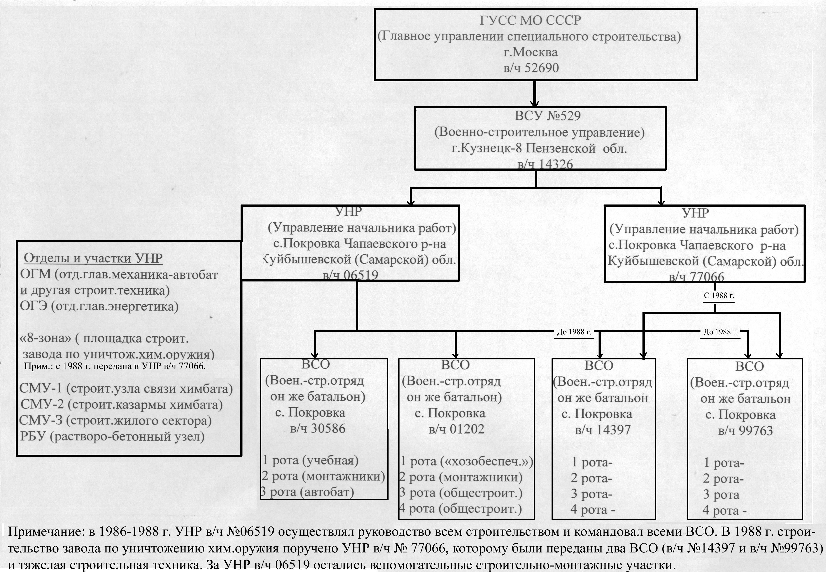 Структура военно-строительного управления ЧЗУХО